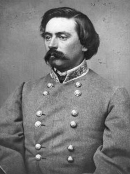 Pierce M. B. Young, Half lgth., facing left; in uniform. Gen., CSA.